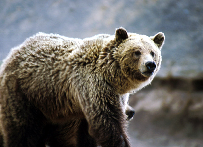 Grizzly in Yellowstone National Park